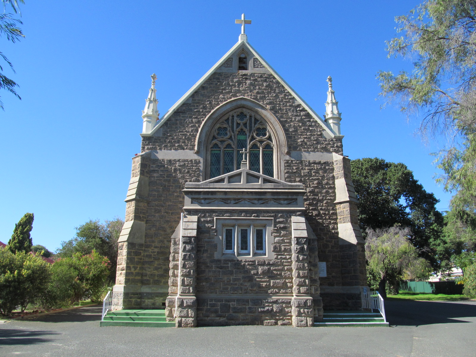 St Mary's Star of the Sea Roman Catholic church, Cottesloe